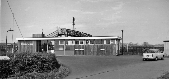 Bagworth & Ellistown Station View of station exterior (Down side): Leicester - Burton-on-Trent line, now freight-only; station closed (and passenger services withdrawn) September 1964.